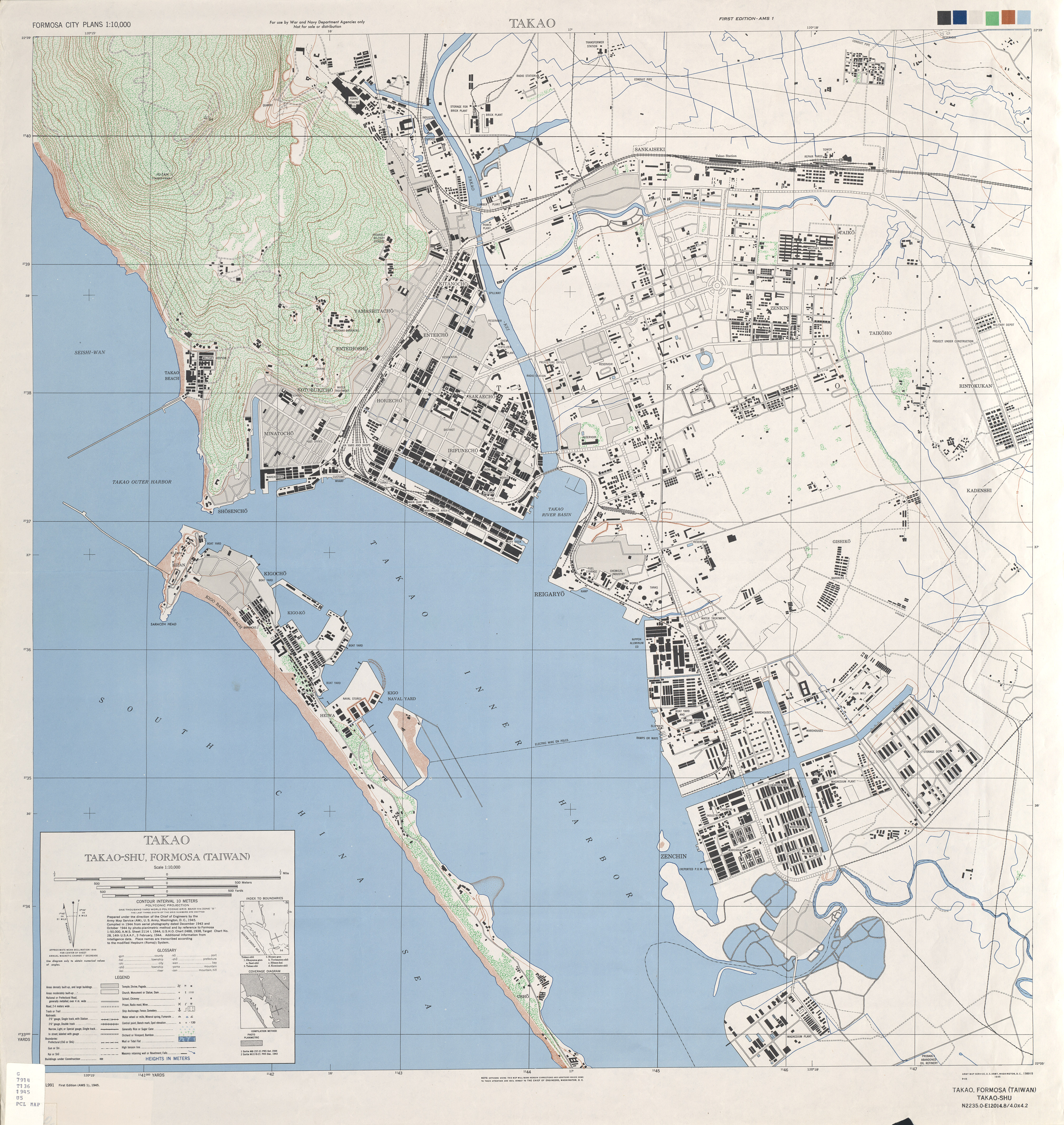 The map of Takao 中文（台灣）: 高雄港圖